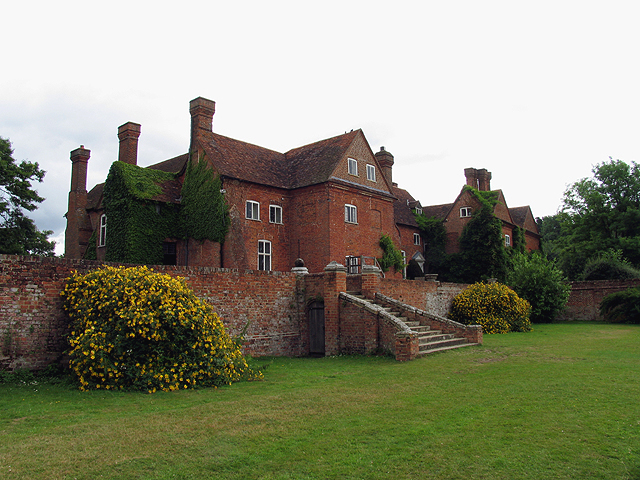 Rear view of Ufton Court in Ufton Nervet, Berkshire